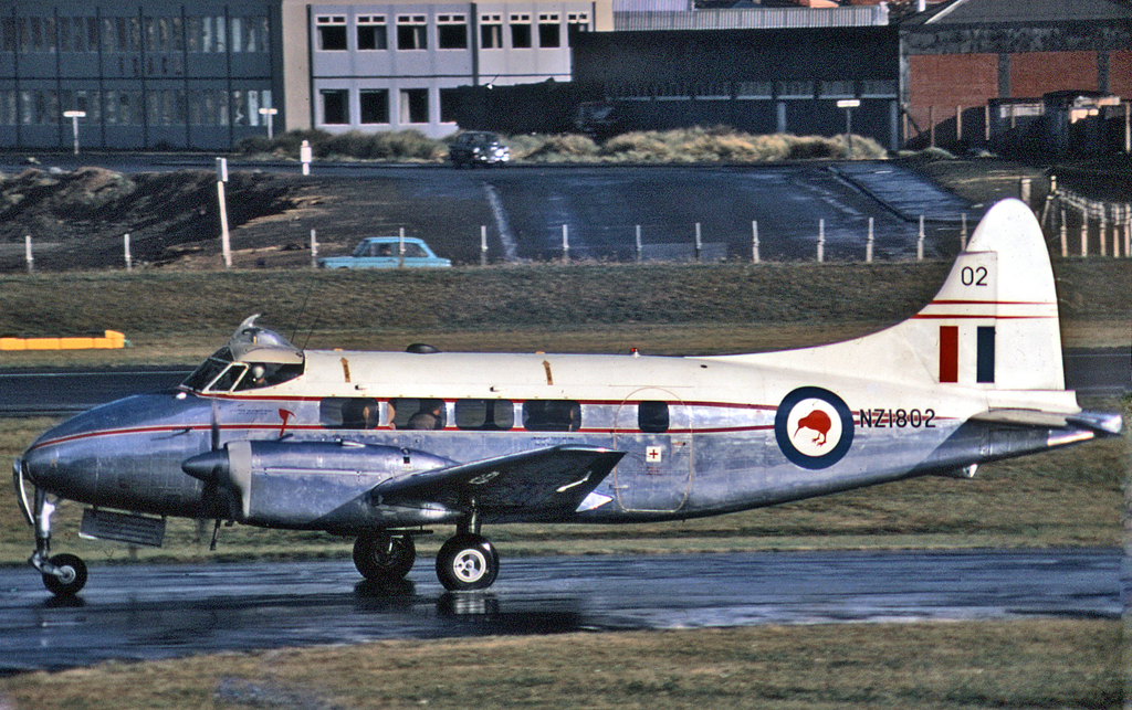 De Havilland Devon C.1 NZ1802 of the Royal New Zealand Air Force at Wellington Airport in 1971.